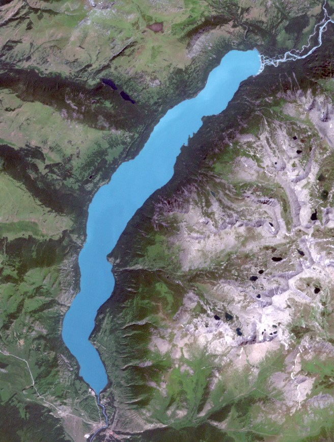 Satellite picture of Lake Kanas and Altai Mountains. Located in the Xinjiang Uygur Autonomous Region of western China, Central Asia. satellite image LandSat-7, near natural colors